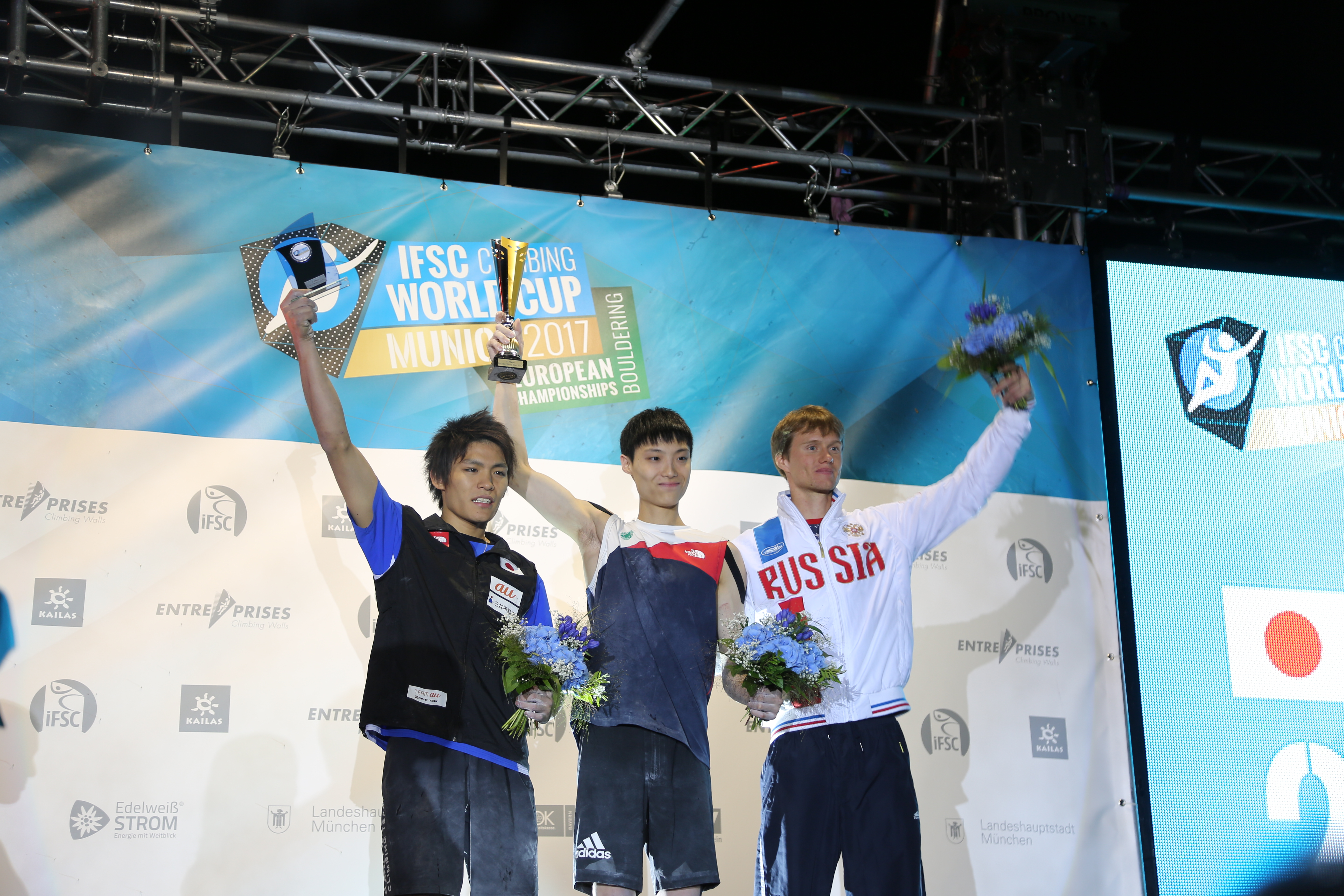 Boulder Worldcup 2017 at Munich, Germany, winners of the saison, men. 1st Place: Jongwon Chon KOR, 2nd Place: Tomoa Narasaki JPN, 3rd Place: Alexey Rubtsov RUS